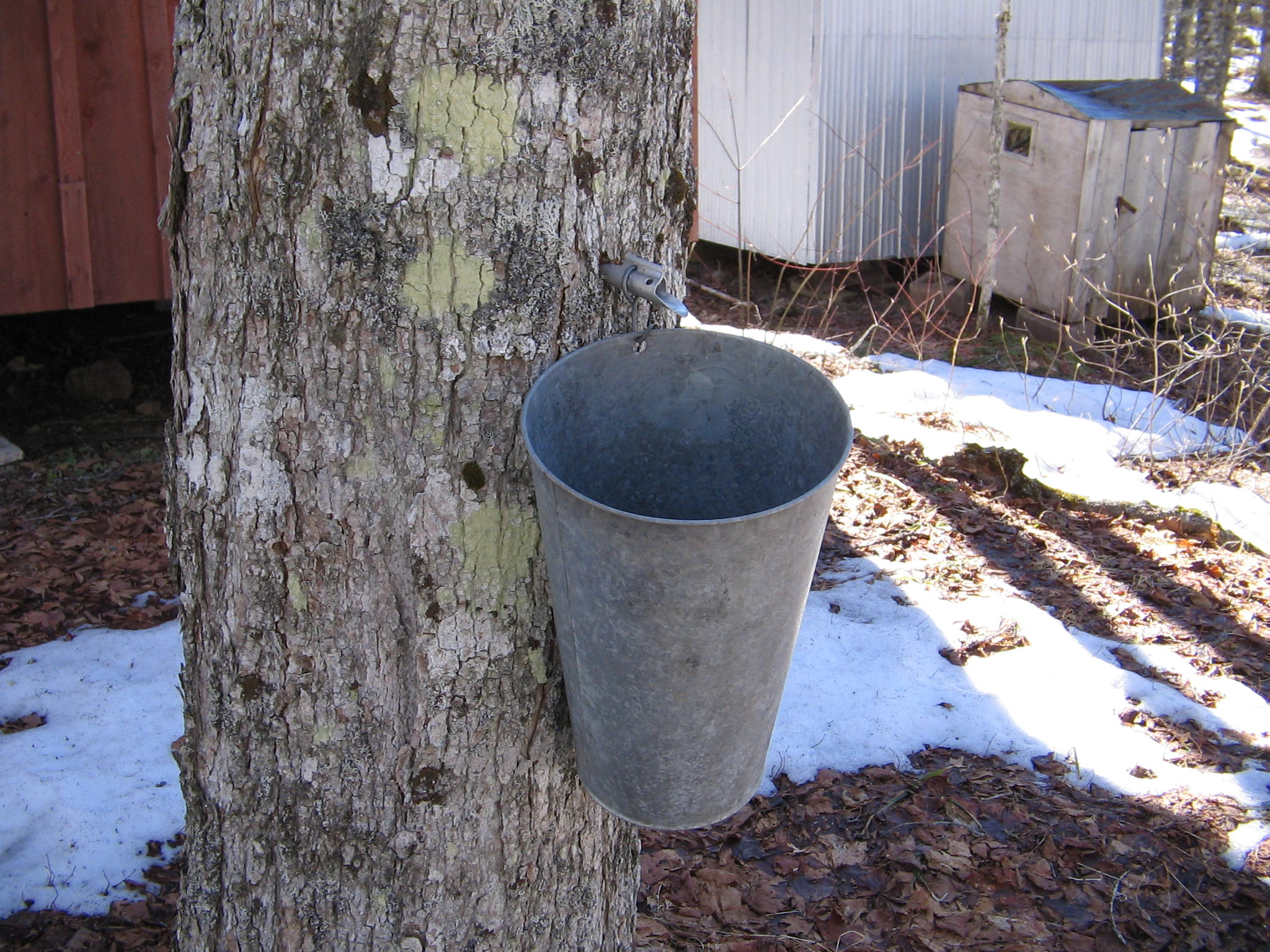 A maple tree which has been tapped in the "traditional" way to harvest maple syrup. In this situation, a hole has been bored into the maple tree and a "tap" inserted. The fluid which is used to make maple syrup, sap, will then slowly drip from the maple tree's tap into the bucket below. The bucket's contents, when full, will be later be relocated and then boiled (which is possible through a variety of methods, most often involving a stainless-steel pan). The boiling process will turn the sap into "pure" maple syrup (to either be sold or enjoyed). Boiling is neccasary to remove the unbalanced ammount of water in the sap. This process has been superseded by methods like this. Photographed by Oven Fresh.